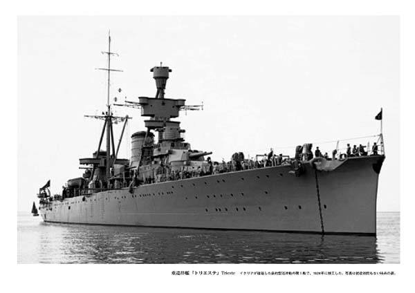 Italian heavy cruiser Trieste